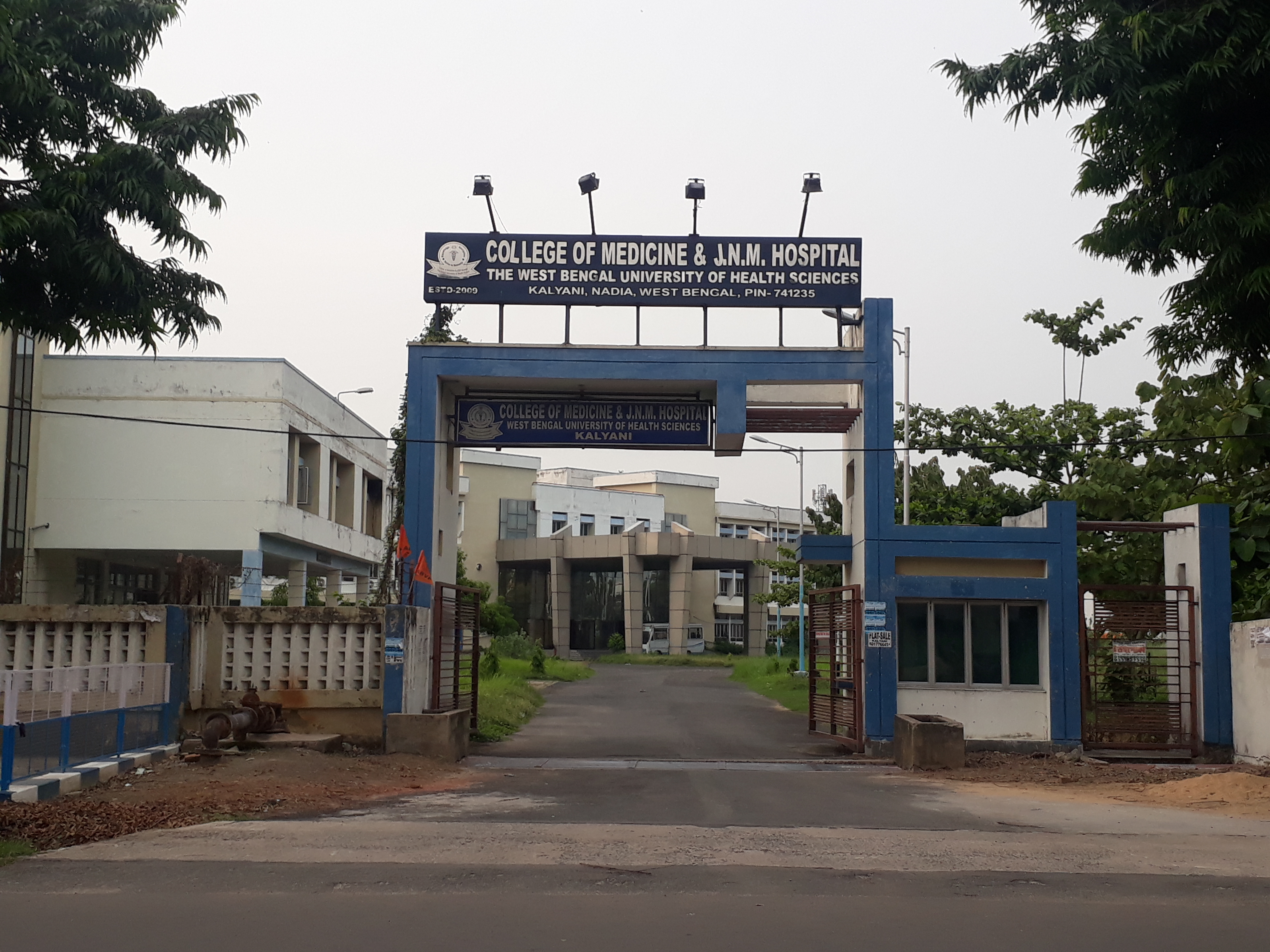 Main gate of Kalyani Medical College and JNM Hospital, situated at Kalyani, Nadia, West Bengal